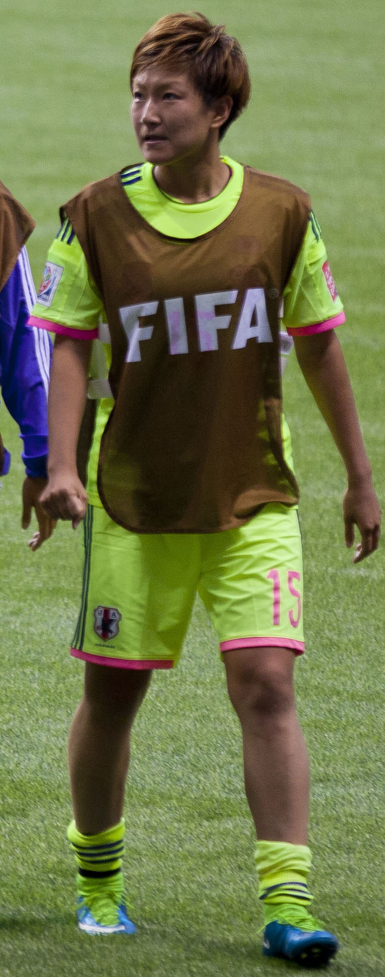 FIFA Women's World Cup Canada June 12th, 2015